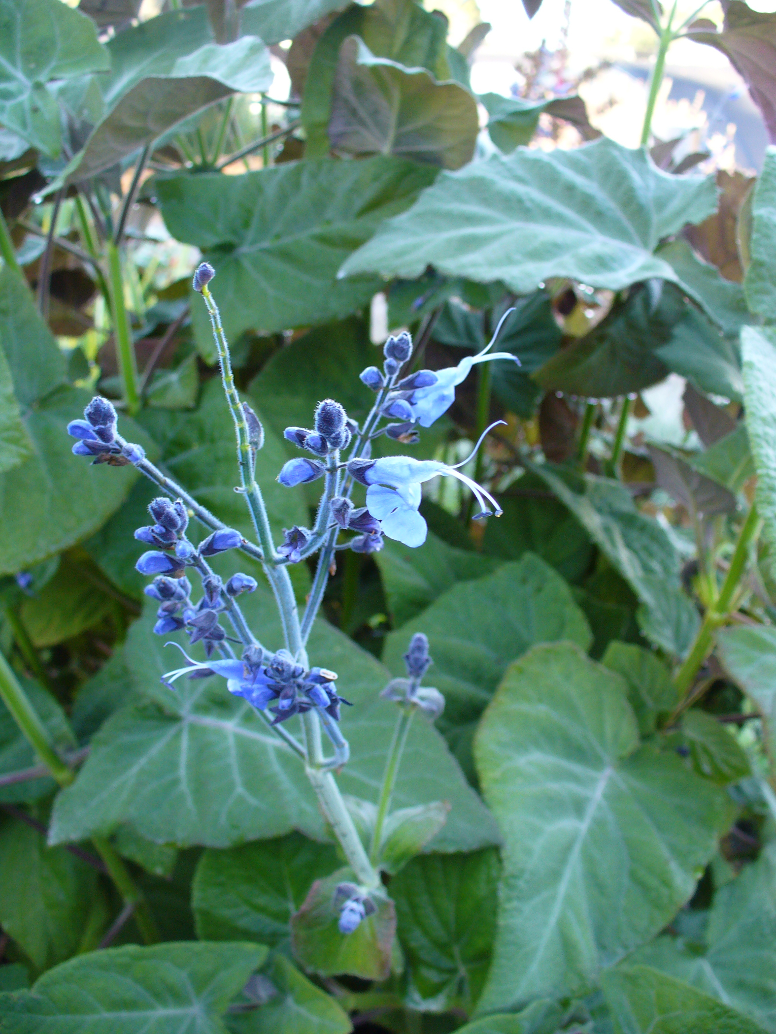 Botanic Garden, Cabrillo College, Aptos, CA. Photographed during the Salvia Summit, 1-2 Aug 2008.